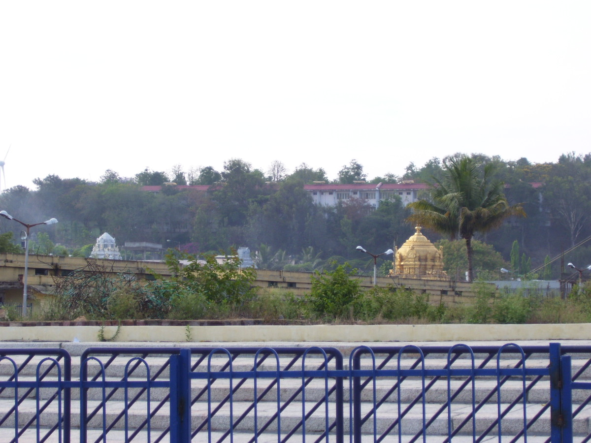 Golden Vimana, Tirupathi